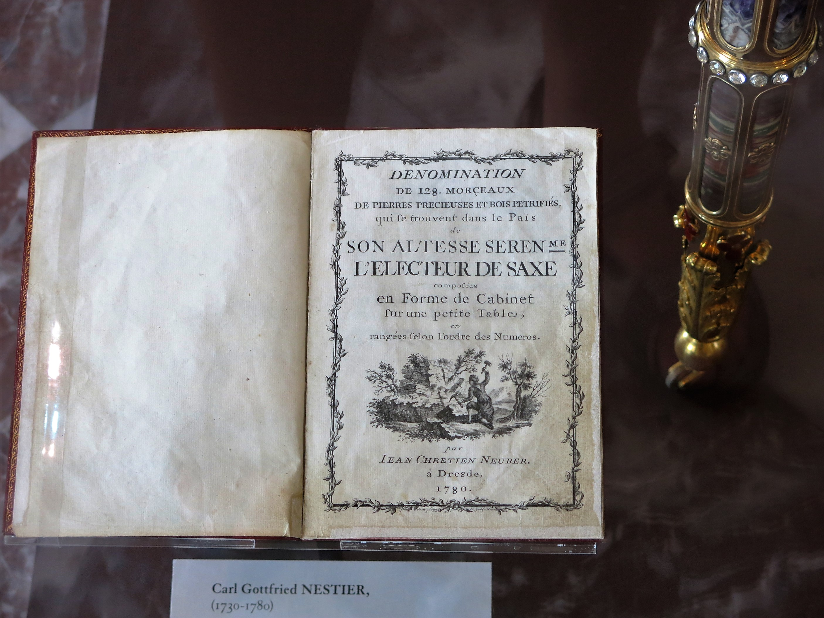 Book describing the stones of the table de Teschen in the Louvre museum (Paris, France).